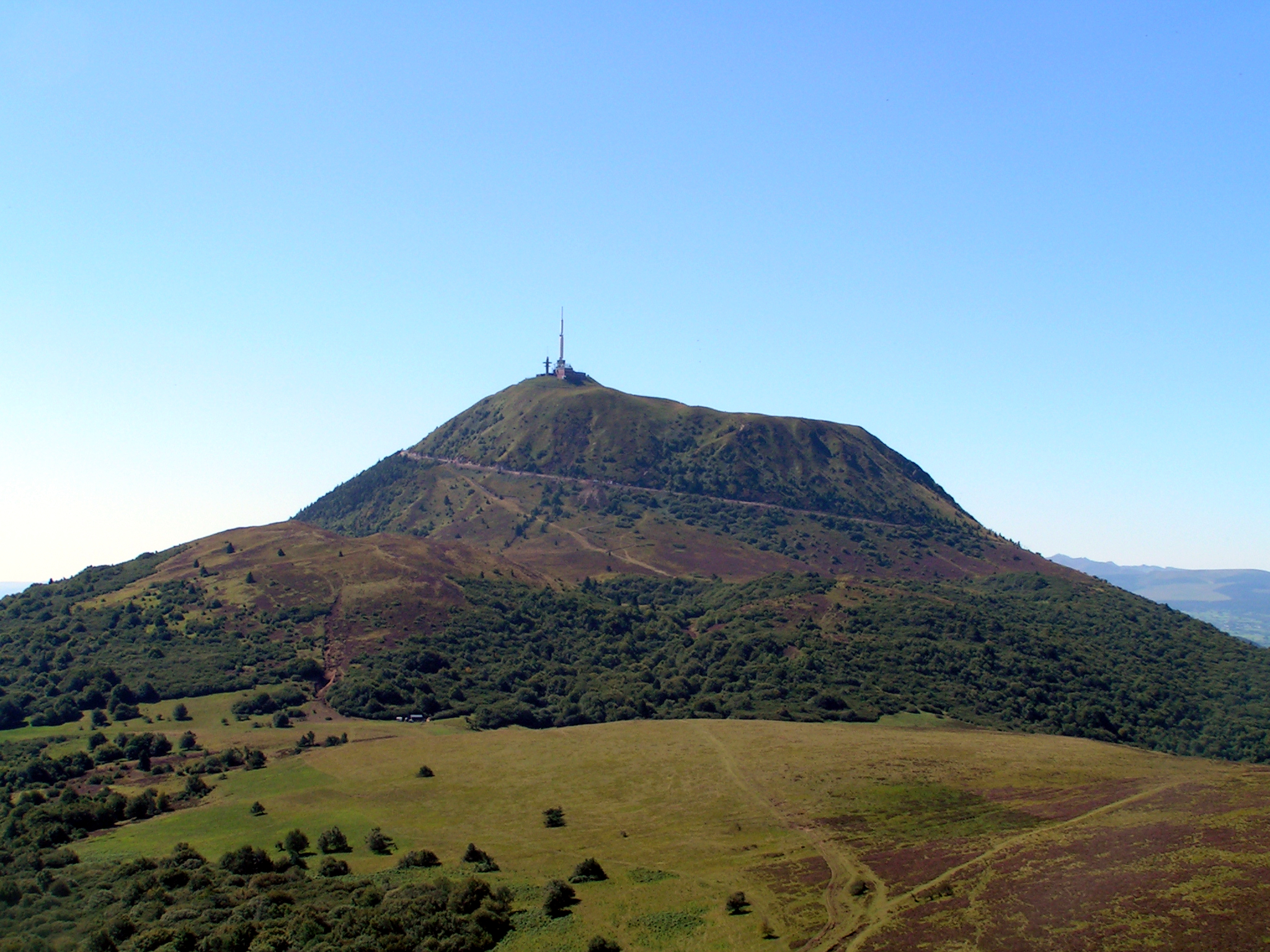 Puy de Dôme near Clermont-Ferrand in Auvergne in France.